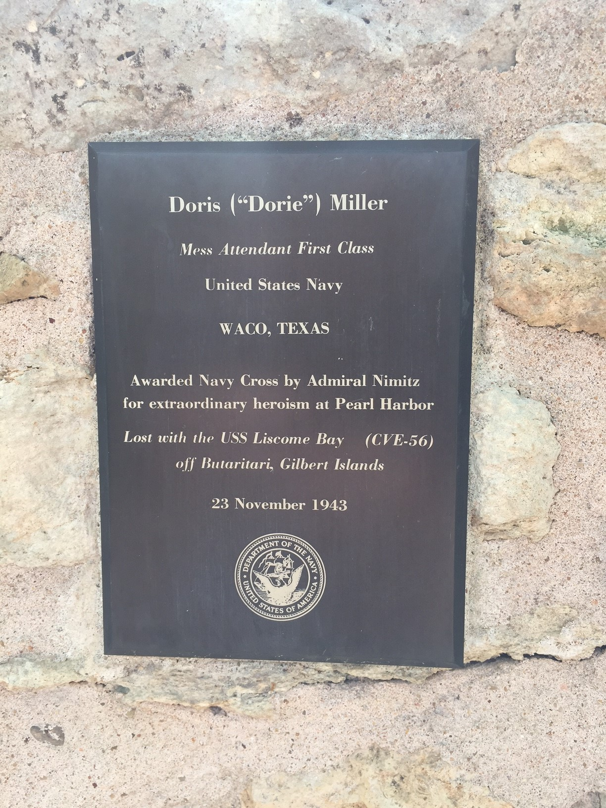 Photo of commemorative plaque for Dorie MIller at the National Museum of the Pacific War